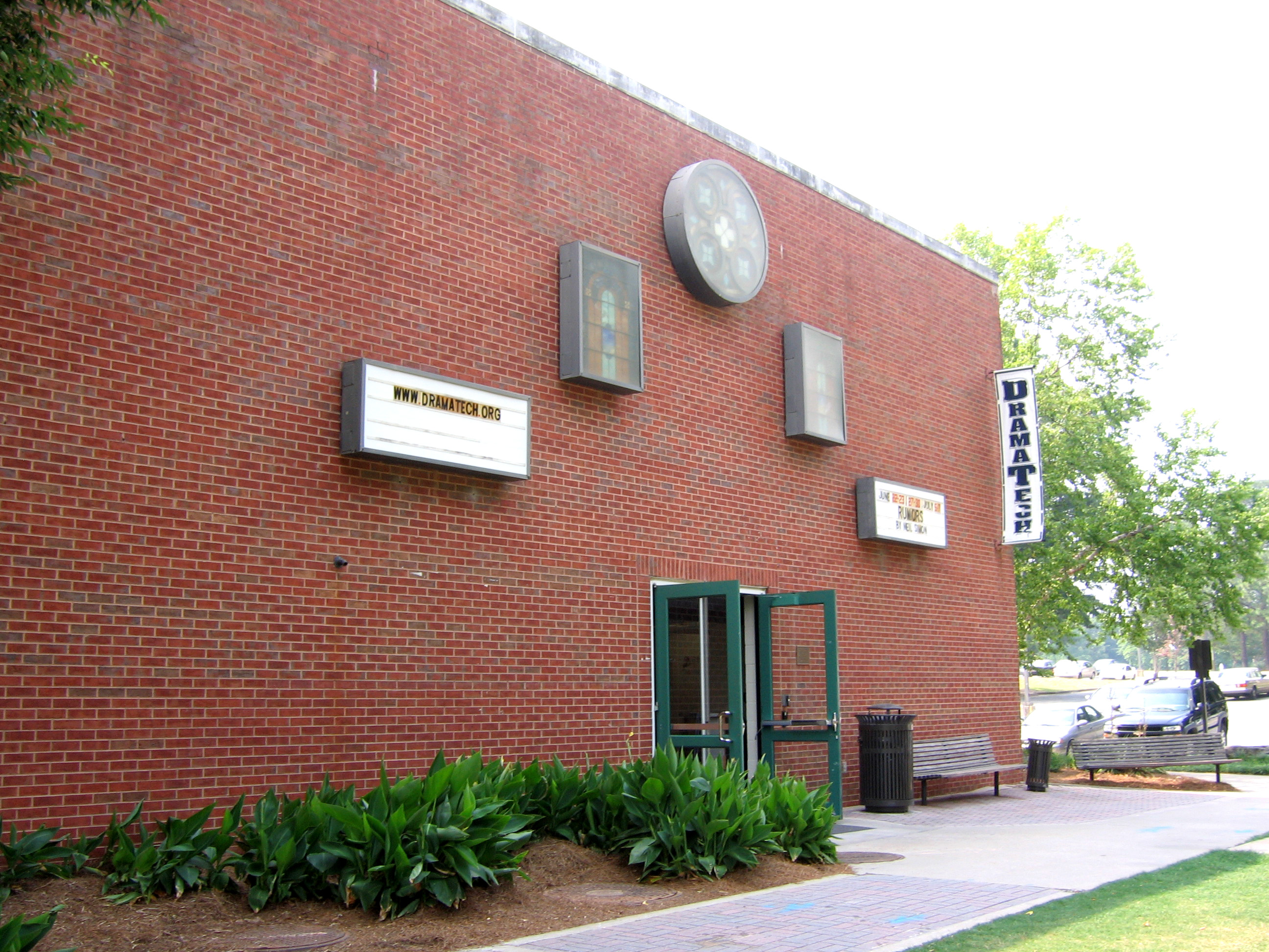 Description: DramaTech, Georgia Tech's theater group. See also: Image:DramaTech 1.jpg and Image:DramaTech 3.jpg Source: I, User:Disavian, took this picture on 2007-05-27